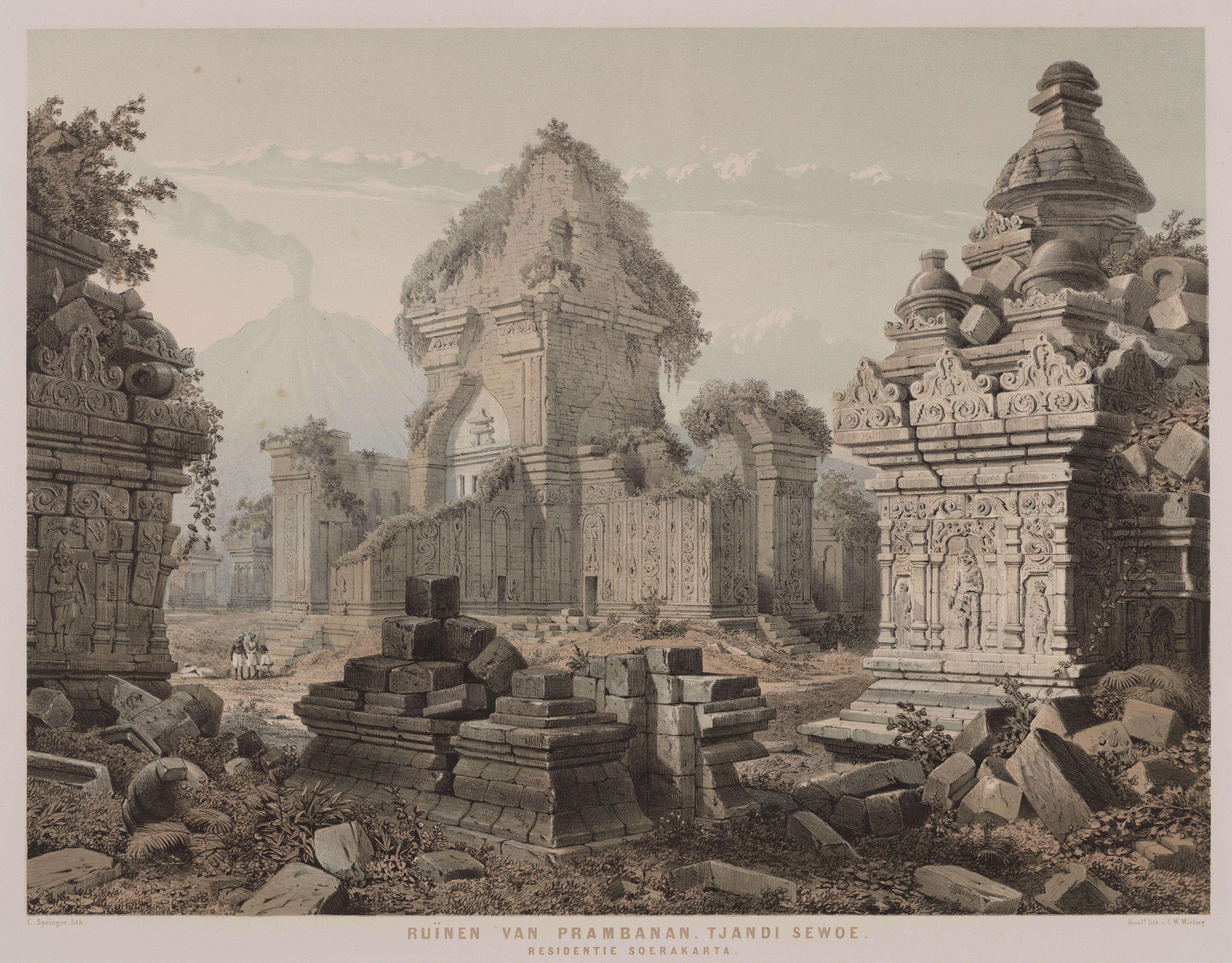 This photograph depicts the ruins of the temple of Prambanan in central Java, the largest Hindu temple ever built in Indonesia and one of the largest in Southeast Asia. Dedicated to the triumvirate of Shiva, Brahma, and Vishnu, the temple was built around 850 A.D. by the Mataram dynasty but abandoned soon after its construction. The Mataram dynasty practiced aspects of both Hinduism and Buddhism, and the temple complex includes some of the earliest Buddhist temples in Indonesia. Prambanan was named a UNESCO World Heritage Site in 1991. The photograph is from the collections of the KITLV/Royal Netherlands Institute of Southeast Asian and Caribbean Studies in Leiden. Hinduism; Historical remains; Sleman; Temples